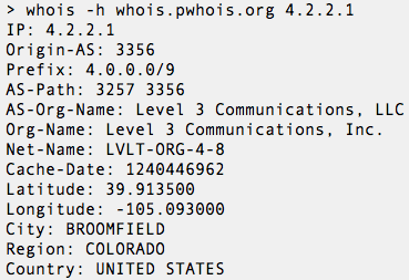 Example Prefix WhoIs query